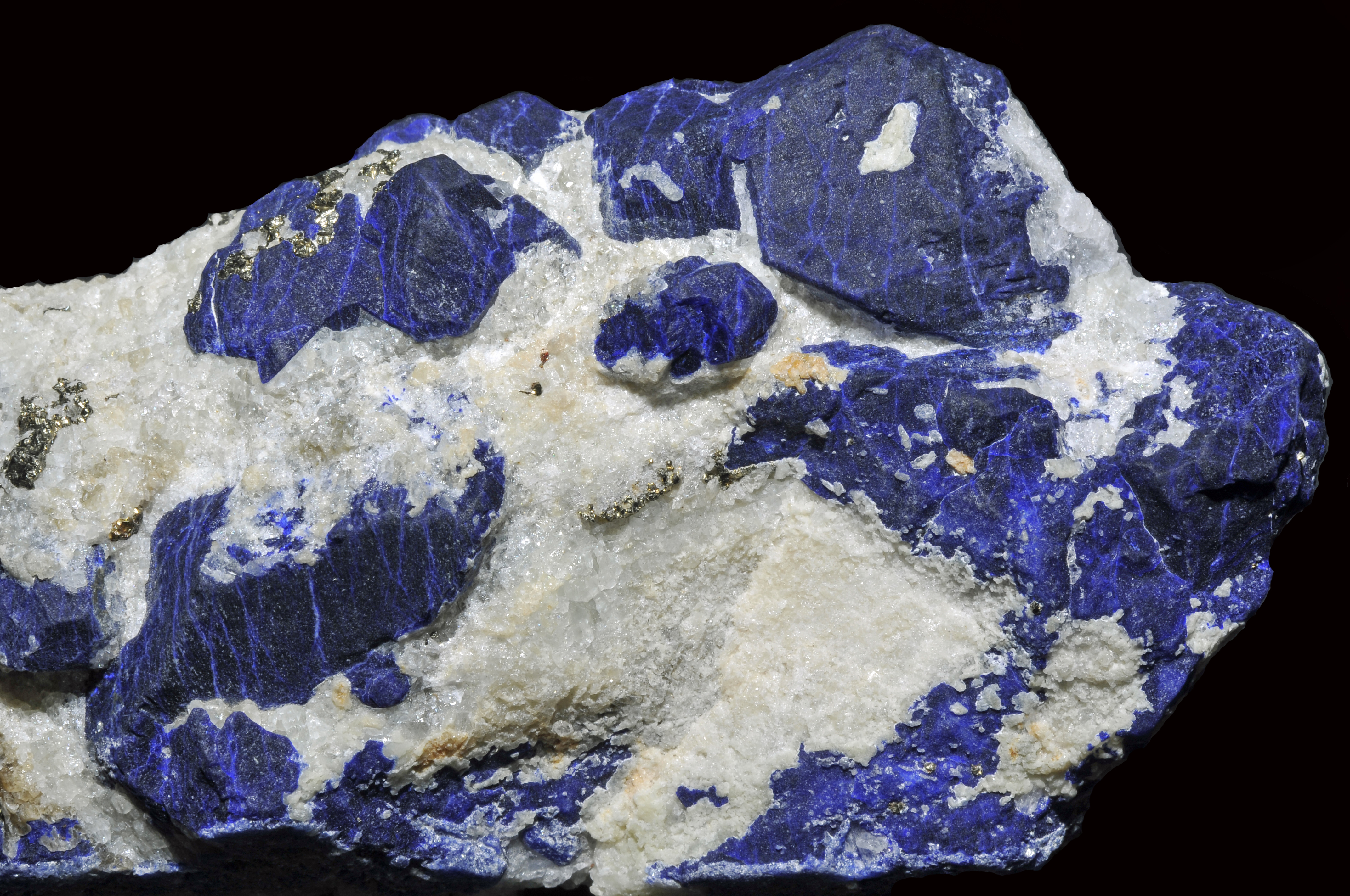 crystals of lazurite, crystals of calcite, crystals of pyrite : Sar-e-Sang (Sar Sang ; Sary Sang), Koksha Valley (Kokscha Valley ; Kokcha Valley), Khash & Kuran Wa Munjan Districts, Badakhshan Province (Badakshan Province ; Badahsan Province), Afghanistan